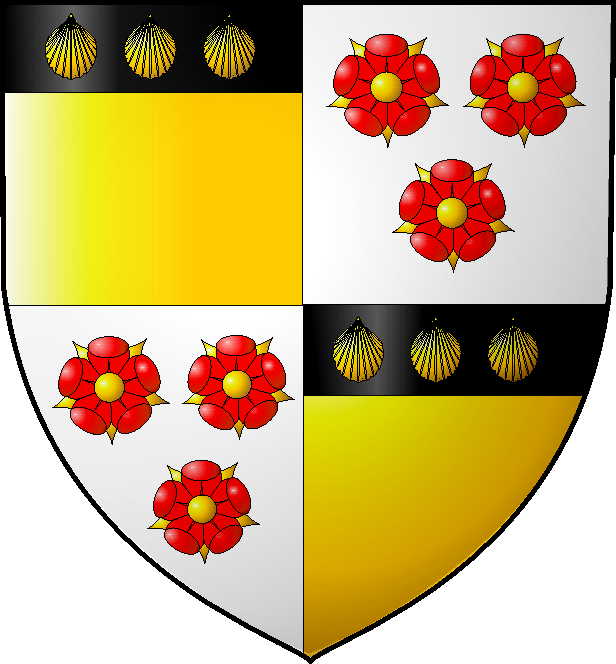 Coat of arms of James Graham, 8th Duke of Montrose Blazon: Quarterly 1st and 4th Or on a chief Sable three escalopes of the first; 2nd and 3rd Argent three roses Gules barbed and seeded Or.